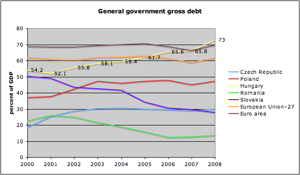 General government gross debt in the Czech Republic, Poland, Hungary, Romania, Slovakia, EU27, and the Euro zone